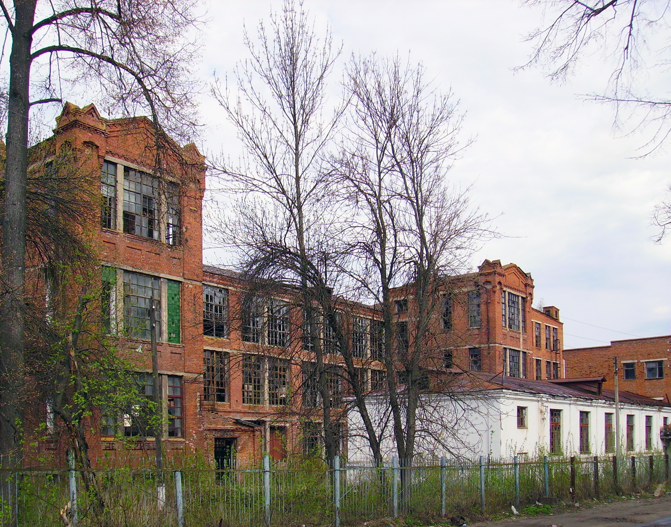 Ruining buildings of former Flax Factory at Sverdlov Street